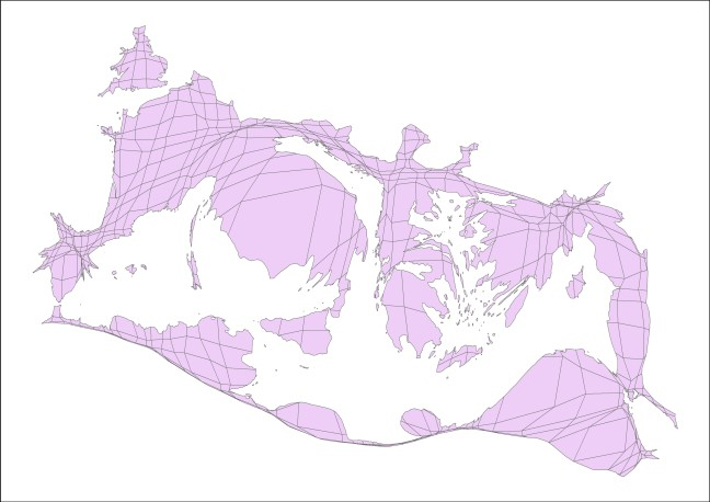 Cartogram of the estimated populations of cities in the Roman world in the Imperial period. Data source: Hanson, J. W. (2016), Cities database, (OXREP databases). Version 1.0. (link).